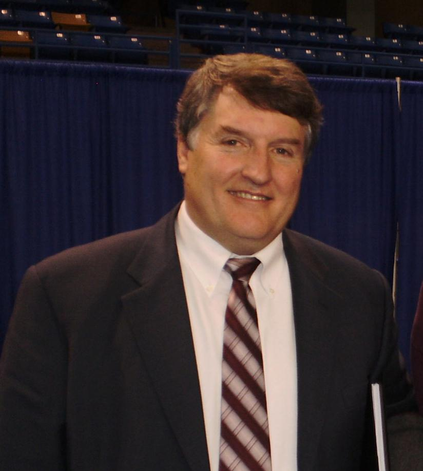 Harry T. Crawford, Jr. (born 1952), member of the Alaska House of Representatives from Districts 22/21 in Anchorage, 2001–2011. Also Democratic nominee for United States Representative from Alaska at-large in 2010 and multiple-time candidate to regain a seat in the legislature in the years since. Photo likely taken at the Carlson Center in Fairbanks in October 2010. Crawford was cropped out of larger original photo.